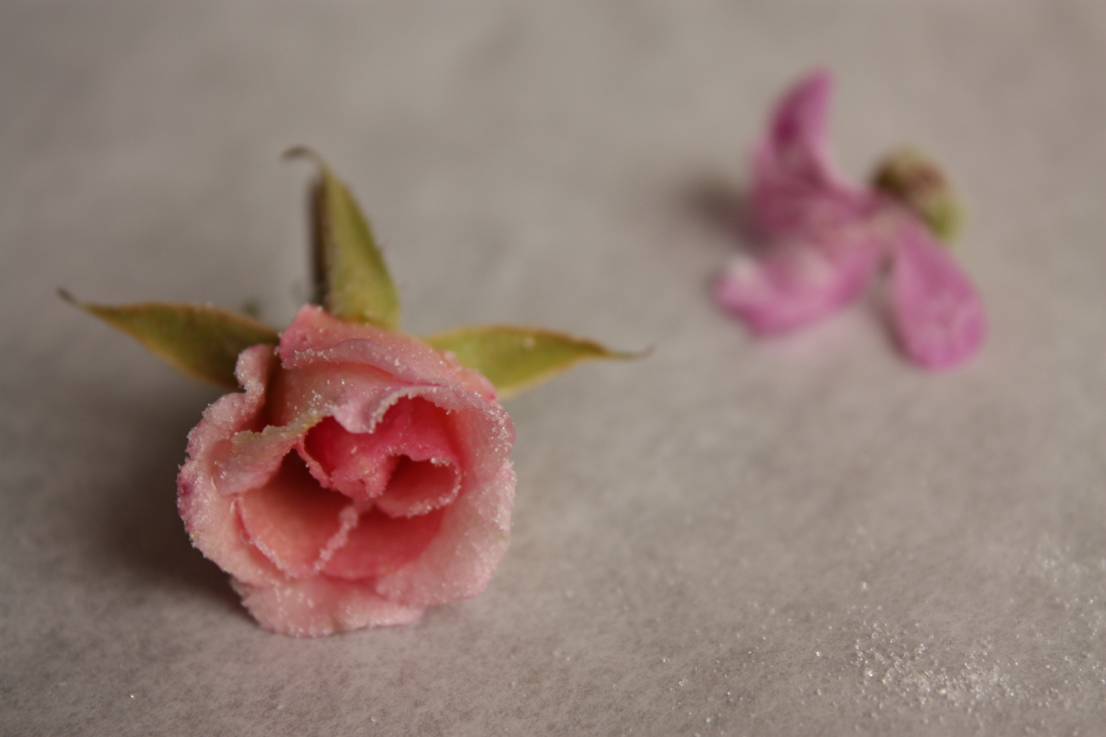 I am not terribly good at fine work, but these that my friend did turned out beautifully.